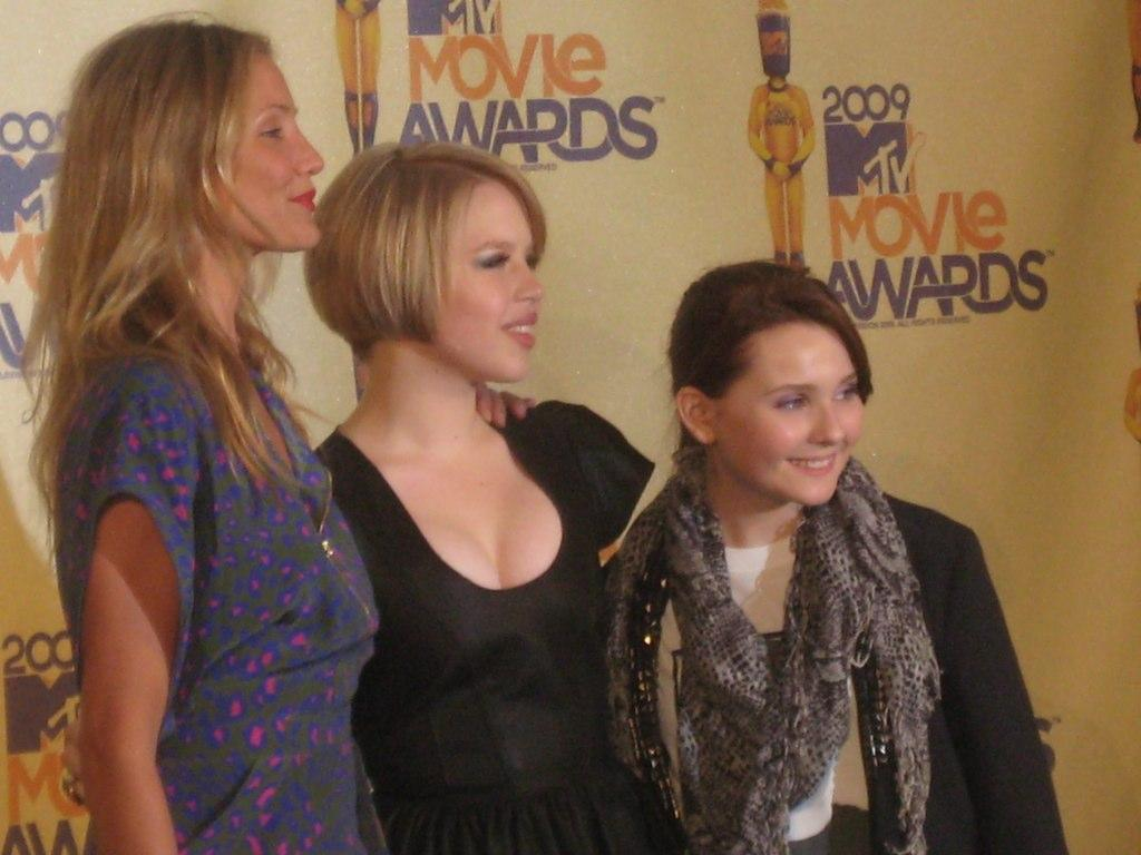 Cameron Diaz, Sofia Vassilieva and Abigail Breslin at 2009 MTV Movie Awards